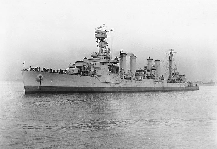 The U.S. Navy light cruiser USS Omaha (CL-4) off the New York Naval Shipyard (USA) on 10 February 1943. The ship is painted in Camouflage Measure 22.